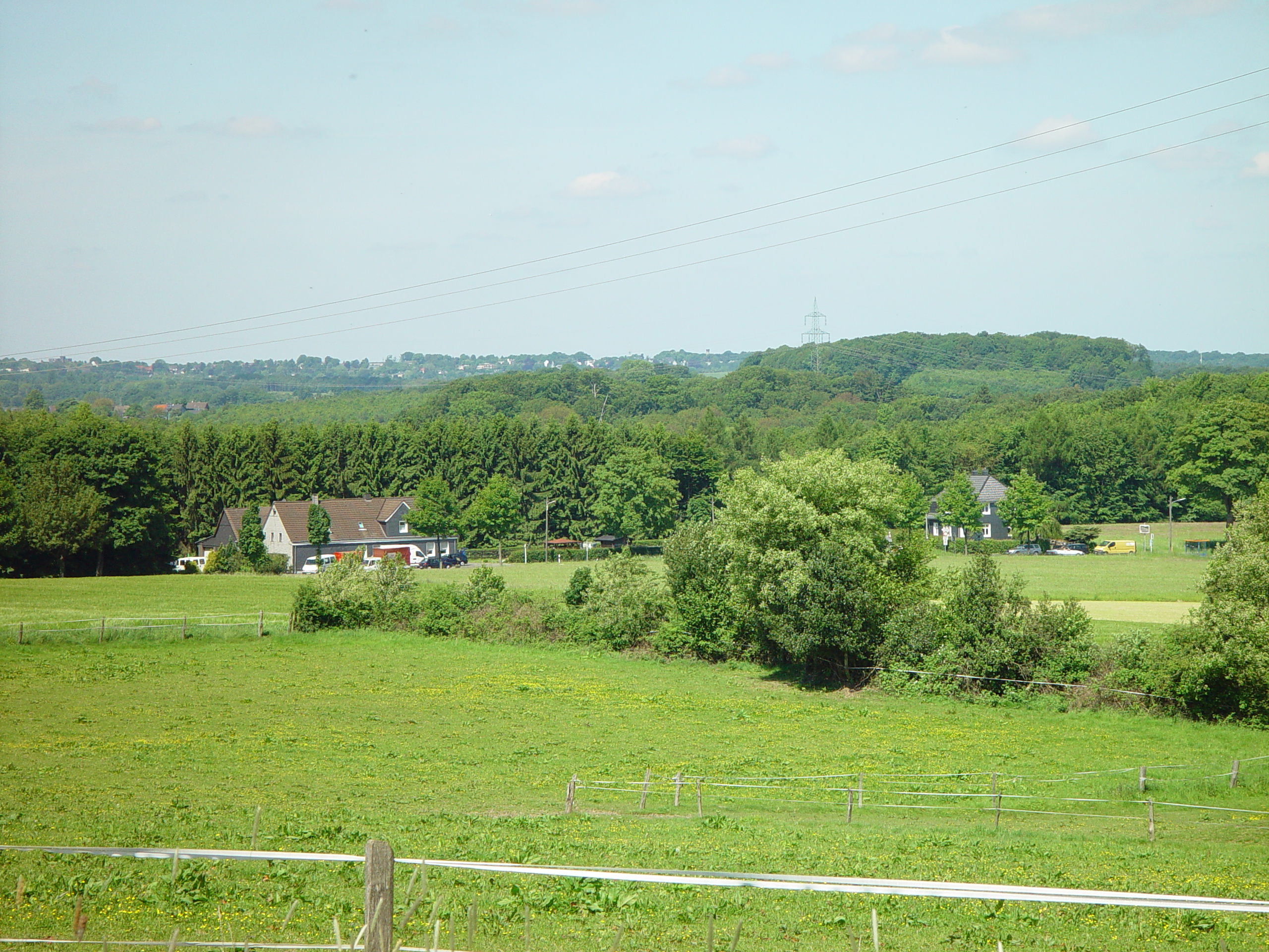 View of Trompete in Wuppertal